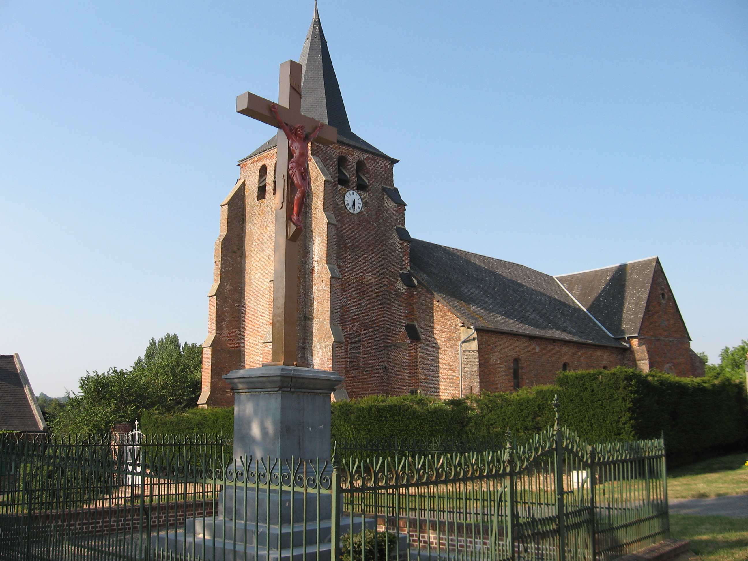 Fortified church of Saint-Pierre-lès-Franqueville